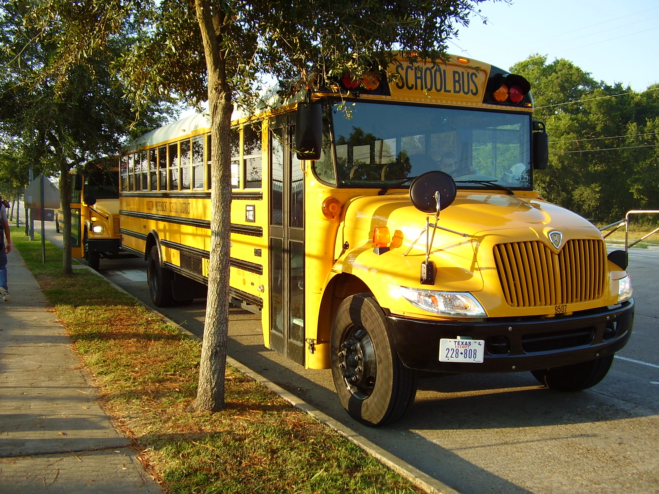 A Houston Independent School District CE300 school bus made by IC Corporation; the bus is one of 120 newly-manufactured at the time school buses delivered to Houston ISD fleet in 2006